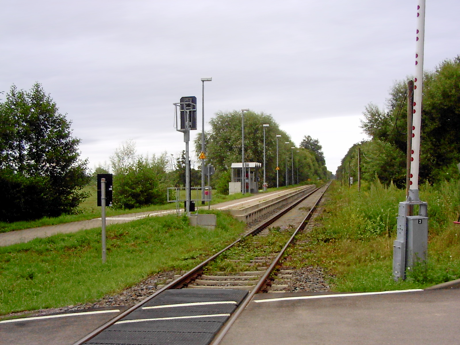 Schweighofen train station